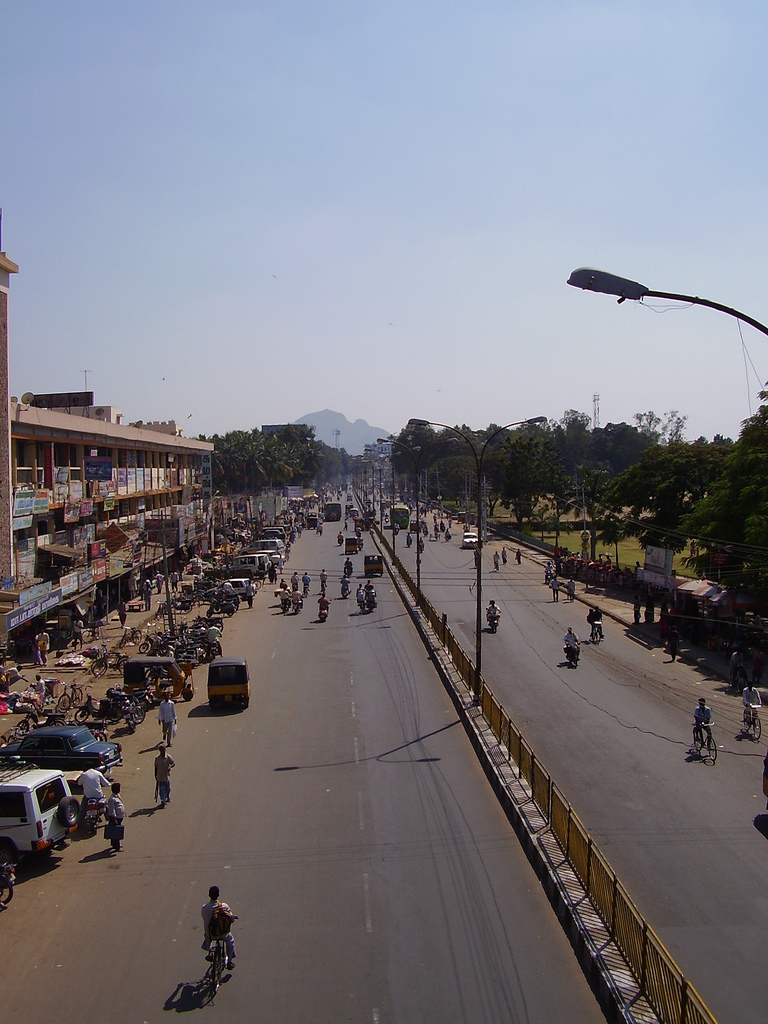 Officer's Line in Vellore on a Sunday afternoon